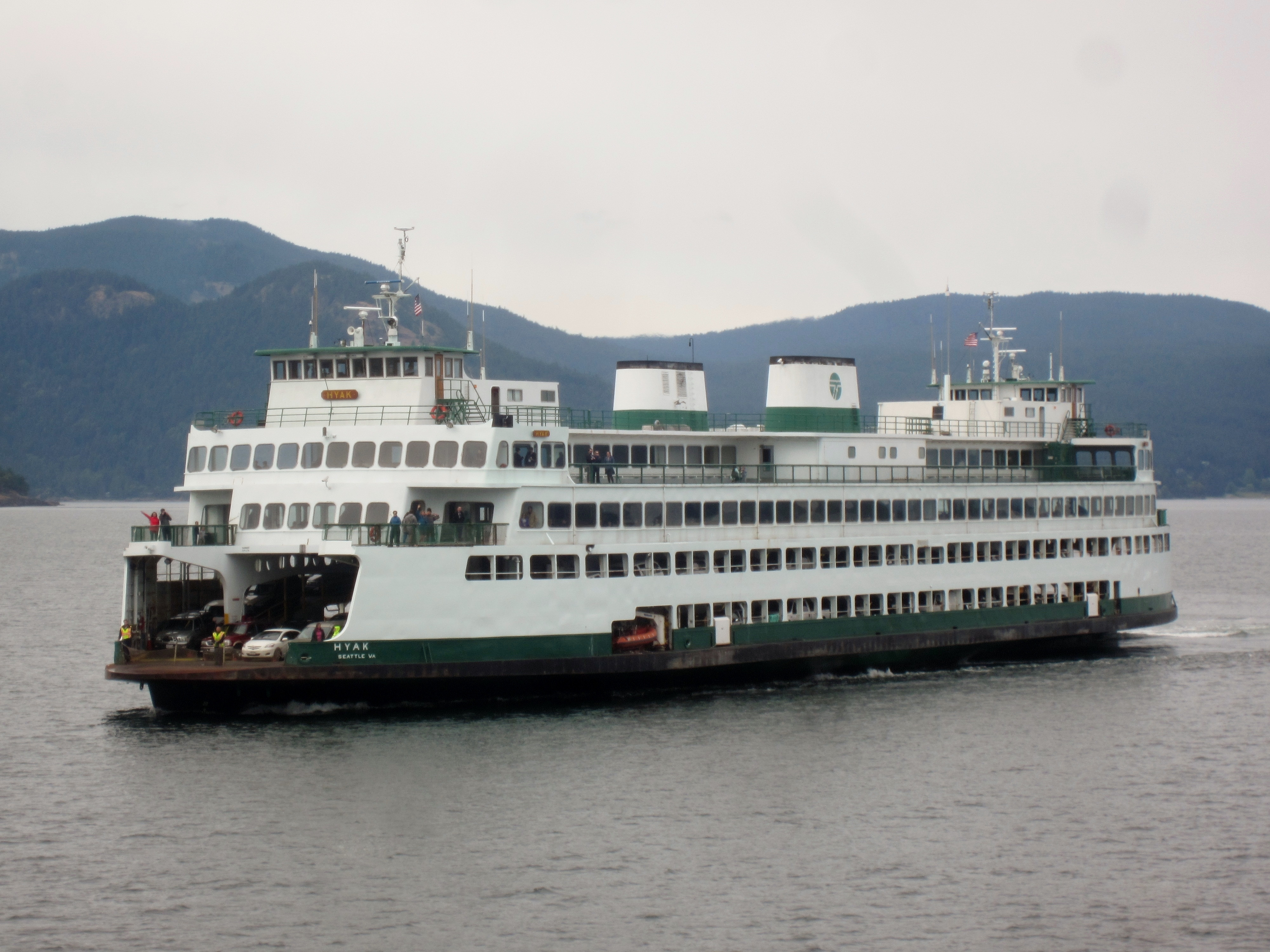 Seen from the Samish at Lopez Island.